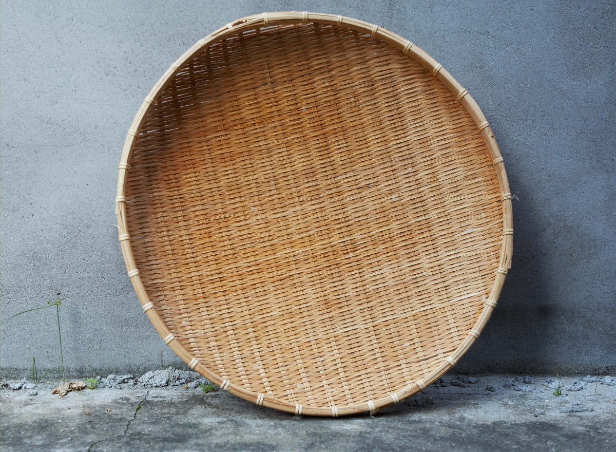 sokuri